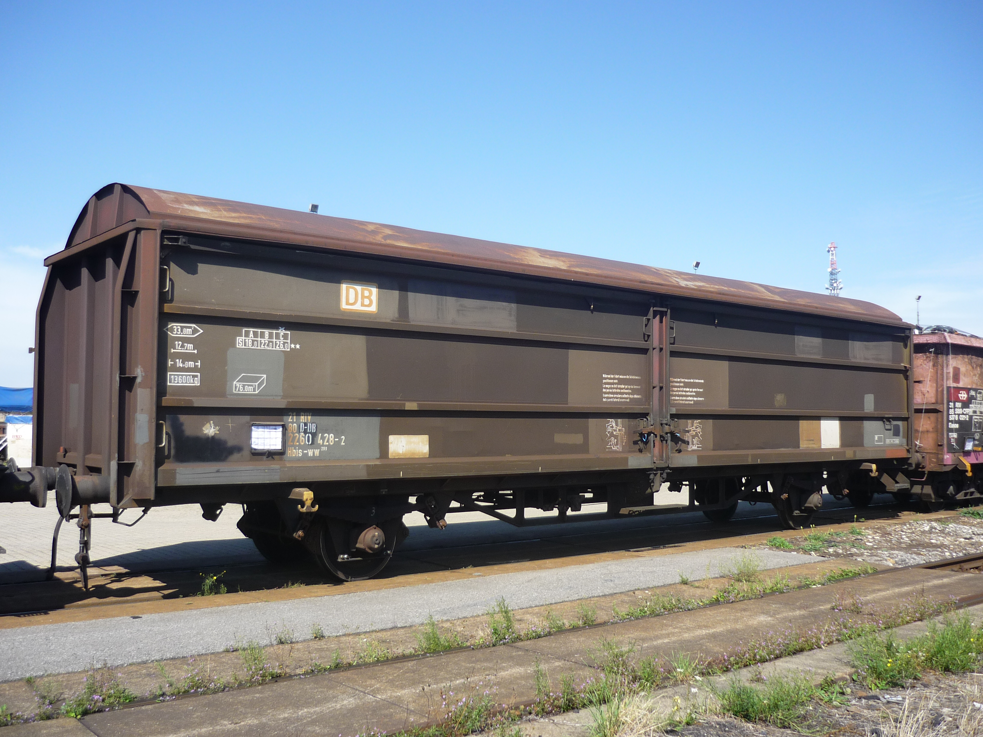 Freightwagon Hbis 299 of DB